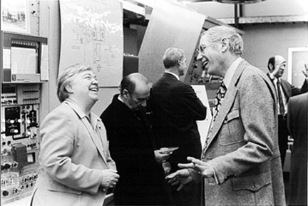 This is an image of Dixy Lee Ray, chairman of the United States Atomic Energy Commission and Robert G. Sachs, director of Argonne National Laboratory.